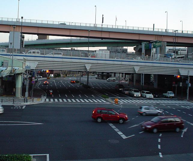 National Route No.174, Kobe, Japan